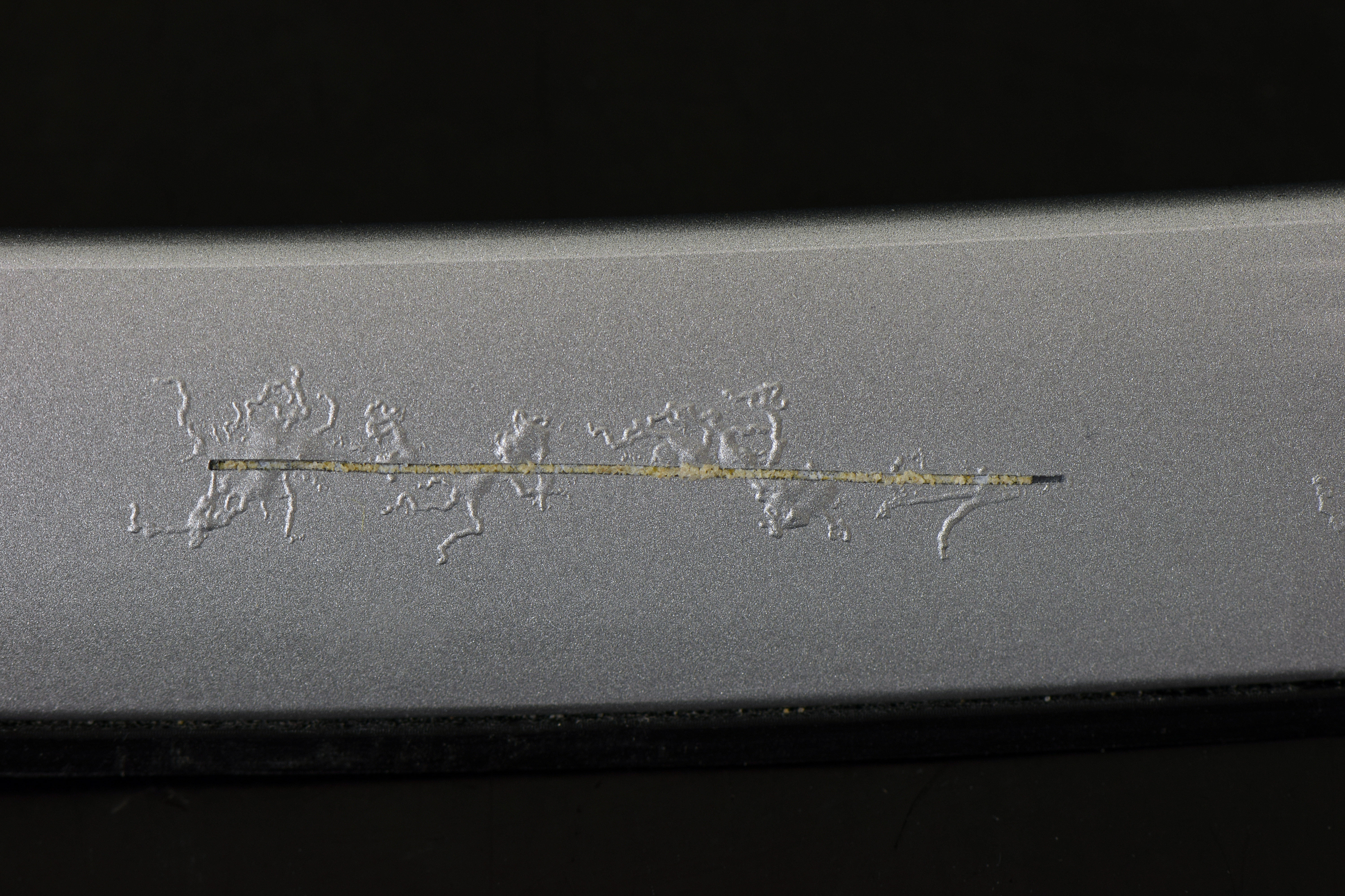 Filiform corrosion spreading from scribe on painted aluminum after complete accelerated corrosion testing (ACT version 2)